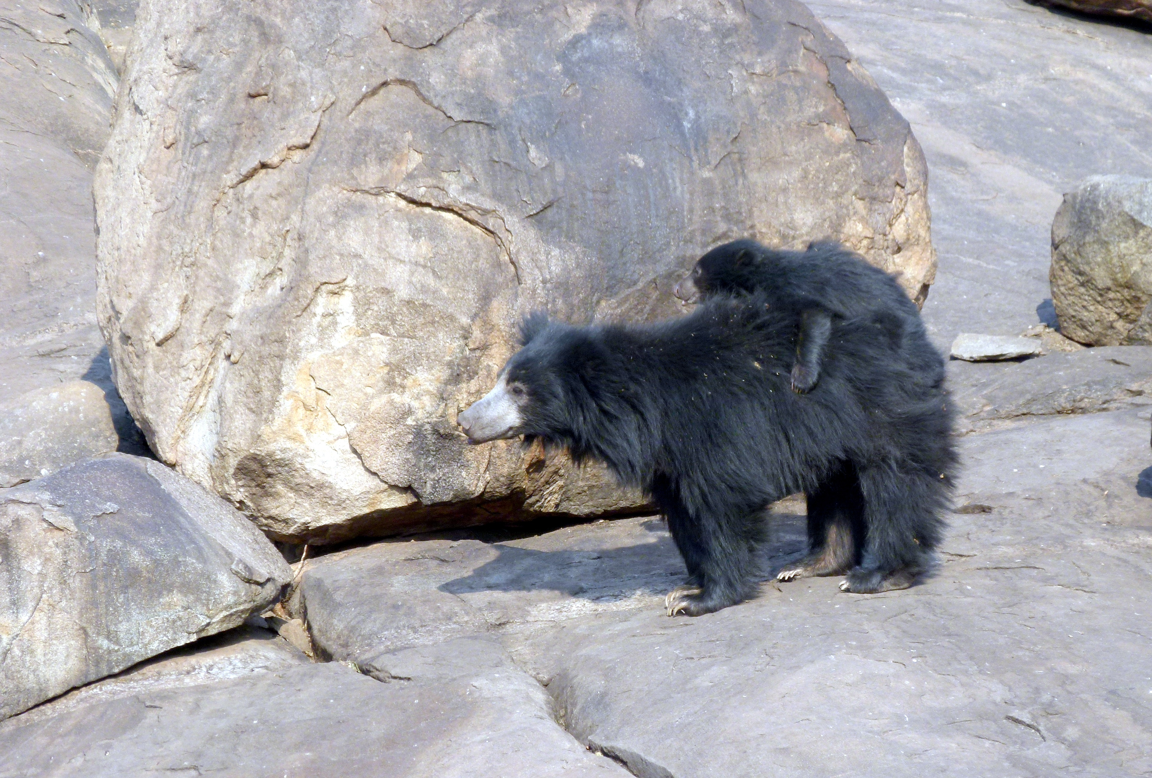 Young bear cub on mother. Melursus ursinus. Daroji Sloth Bear Sanctuary, Bellary, Karnataka, India